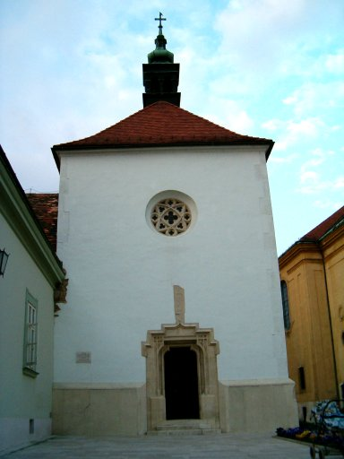 St. Anna Chapel in Székesfehérvár